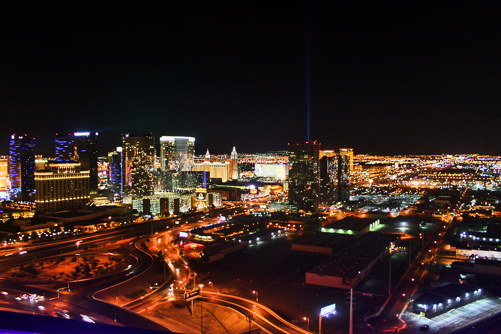 From the Grand Hotel Rio All Suite terrace.